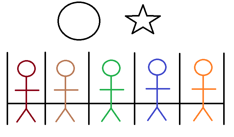 Image of the Crutchfield Apparatus